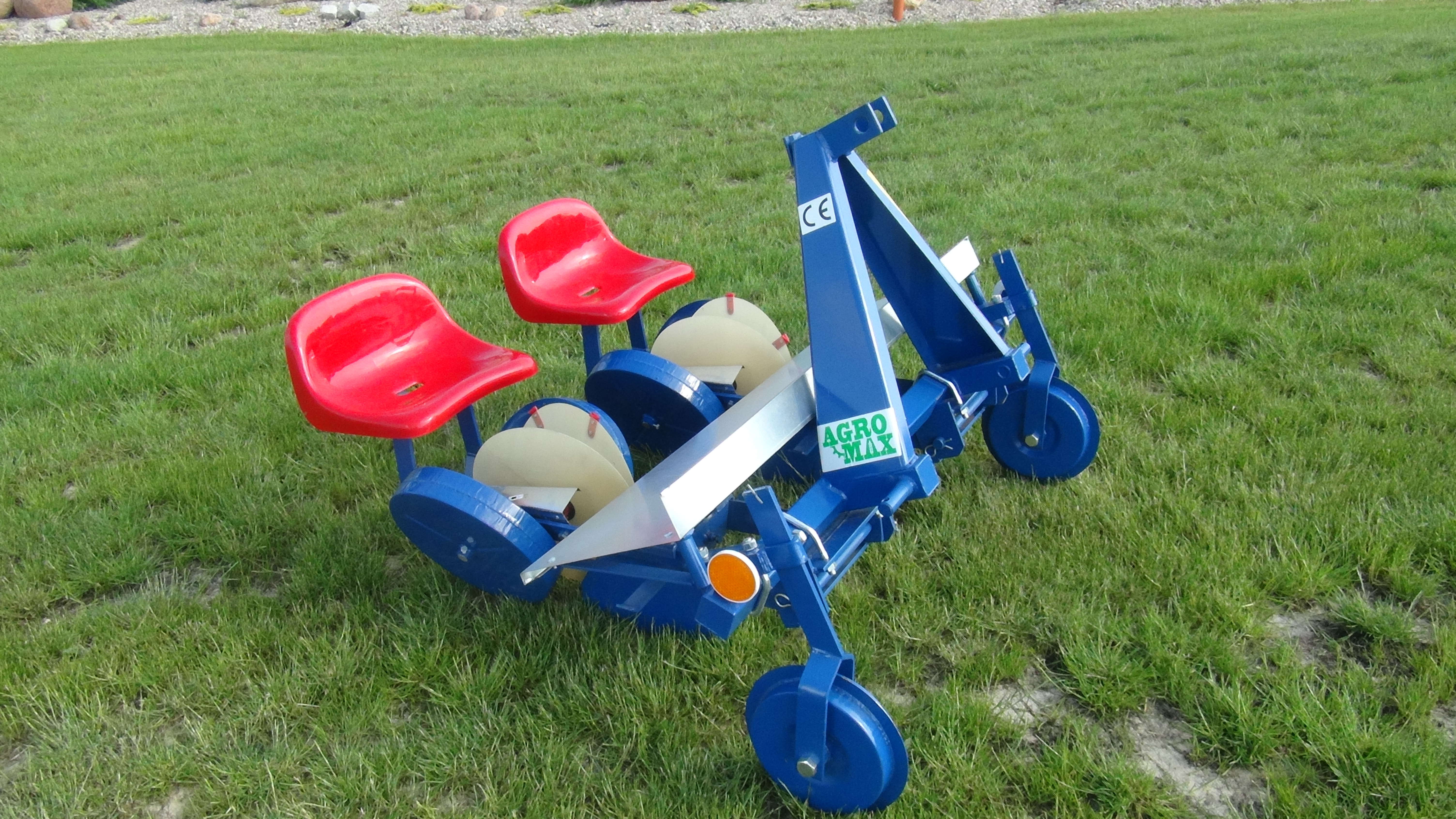 Transplanter